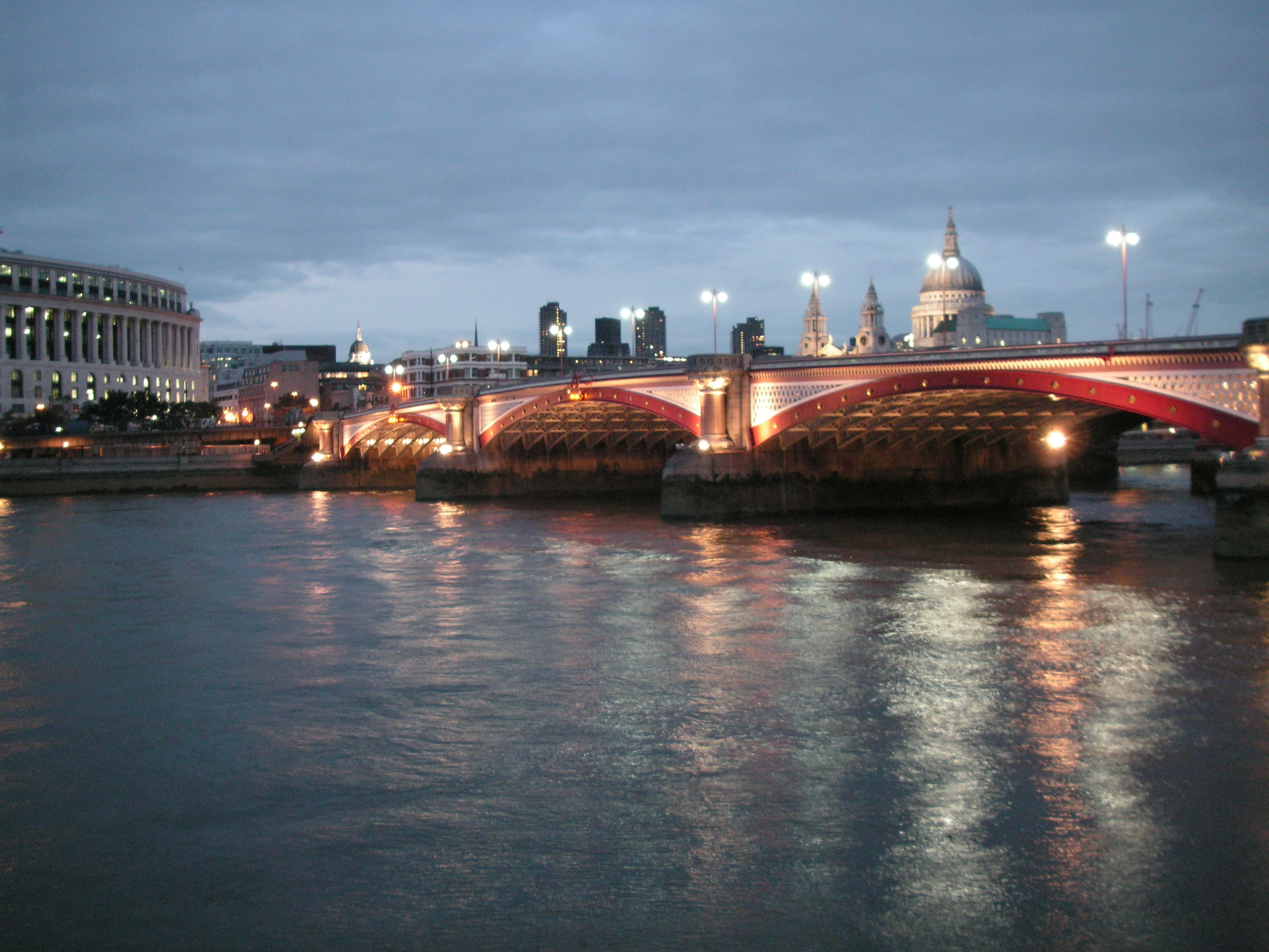 Blackfriars Bridge, with St. Paul's in the background